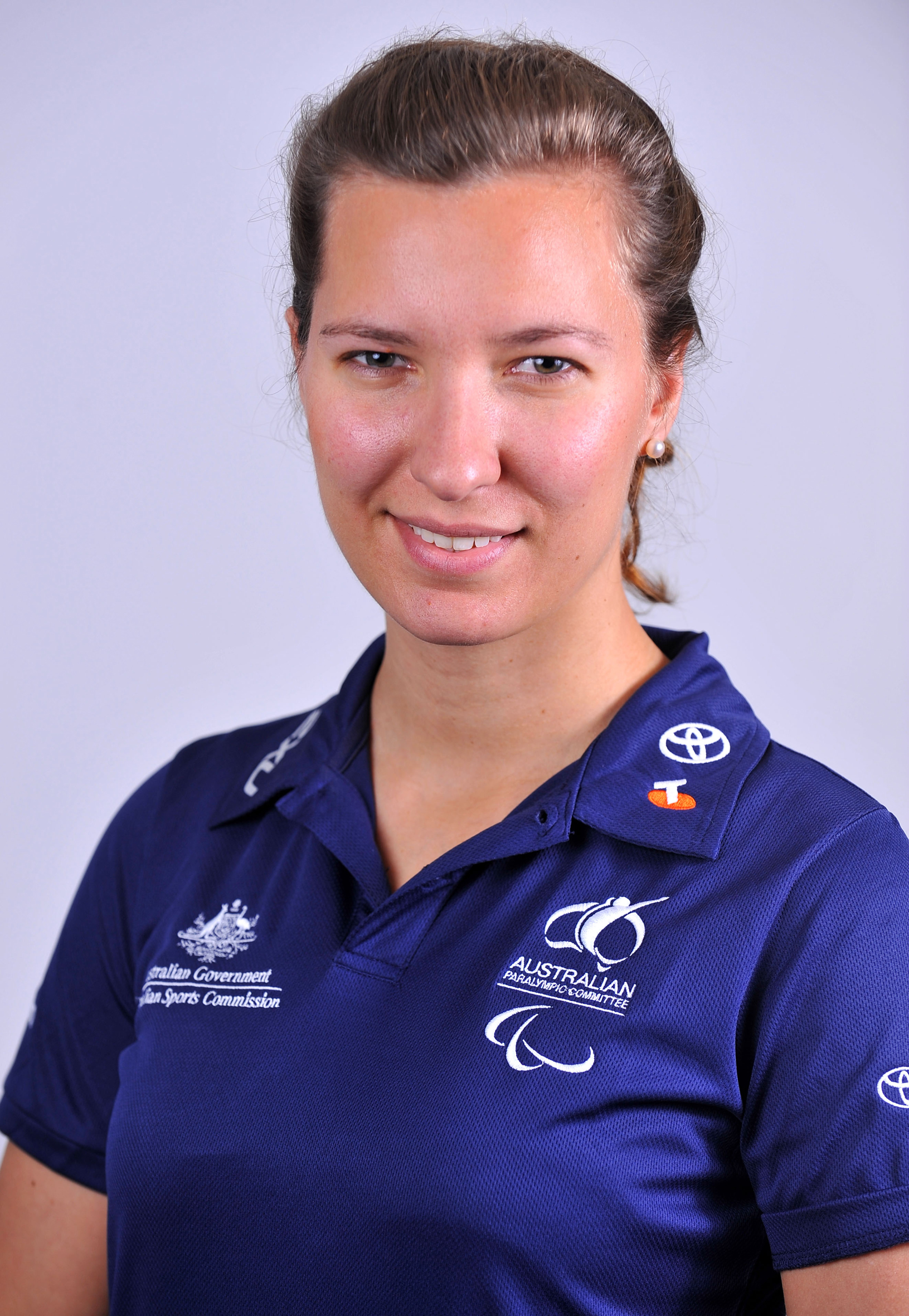 Portrait of Australian goalball player Michelle Rzepecki, 2012 Australian Paralympic (shadow) Team athlete